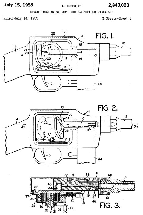 MGD Machine Gun internals from the original US Patent granted to inventor mr. DEBUIT in 1958.